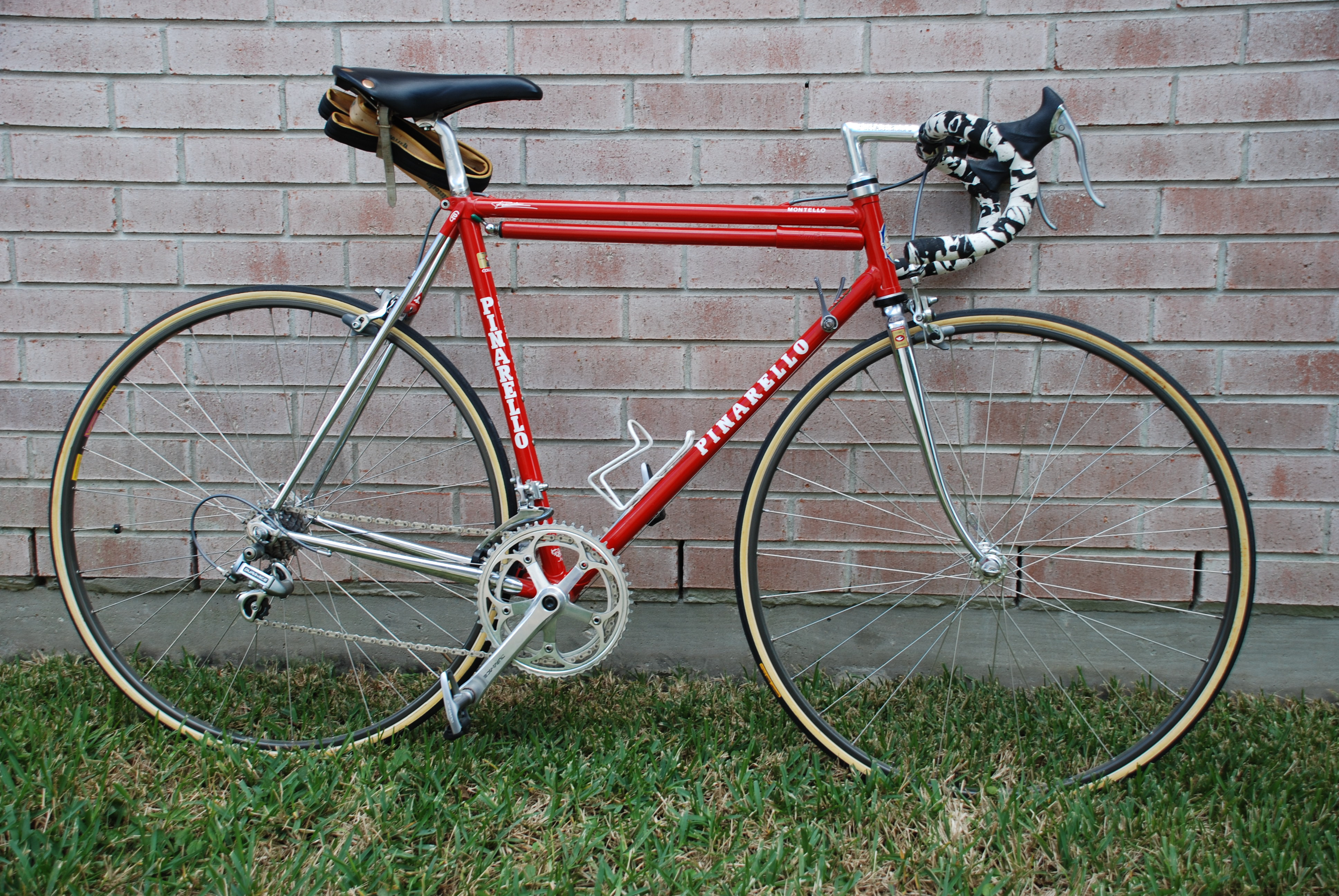 Personal Photo, Fair use is applicable if reasonable